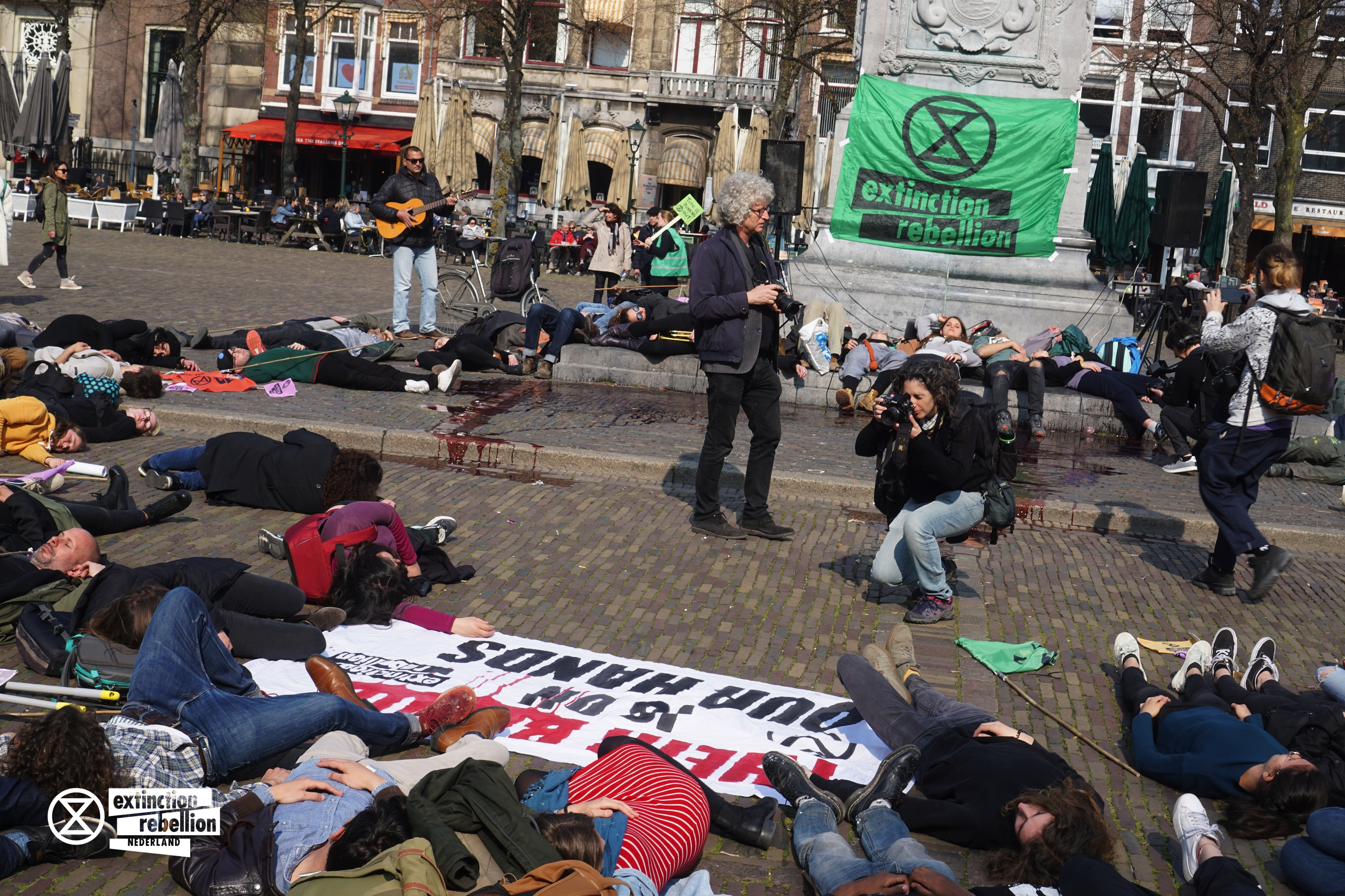 Photo by Jeppe Bijker